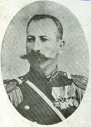 Stefan Nikolov